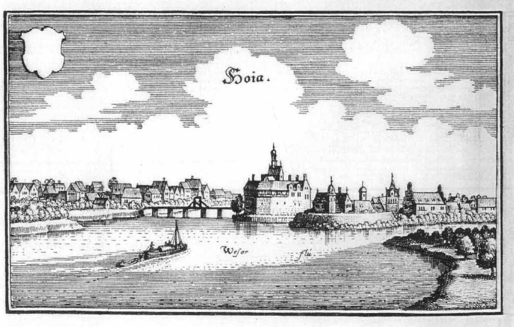 This is a scan of the historical document